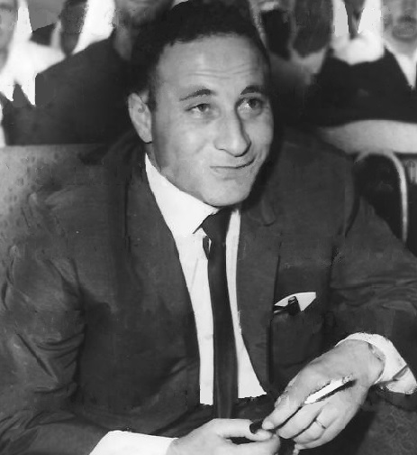 Abd al-Karim Jundi of Syria's Ba'ath Party and Military Committee. Photo has been cropped, and other clean-up edits to it have been made